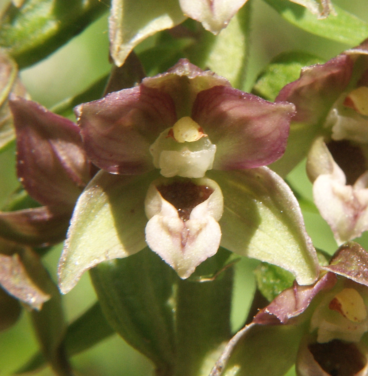 Epipactis distans, (syn. Epipactis helleborine subsp. distans), Berhctesgadener Alpen, Germany